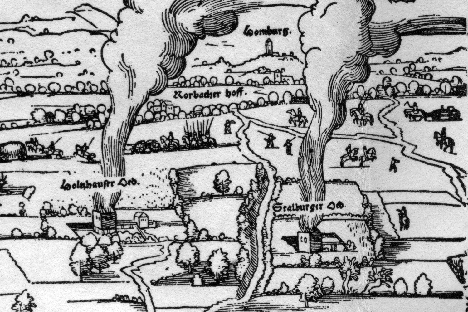 Frankfurt on the Main: Detail from the siege plan of 1552 with the north-eastern bounds of Frankfurt. In the foreground the burning Holzhausenschlösschen (Holzhausen Manor House, labeled as Holtzhauser Oed) and the Stalburger Oed. In the background the suburban farm house Kühhornshof (formerly called Rorbacher Hoff) as well as — in the background — a predecessor of the small town Bad Homburg vor der Höhe